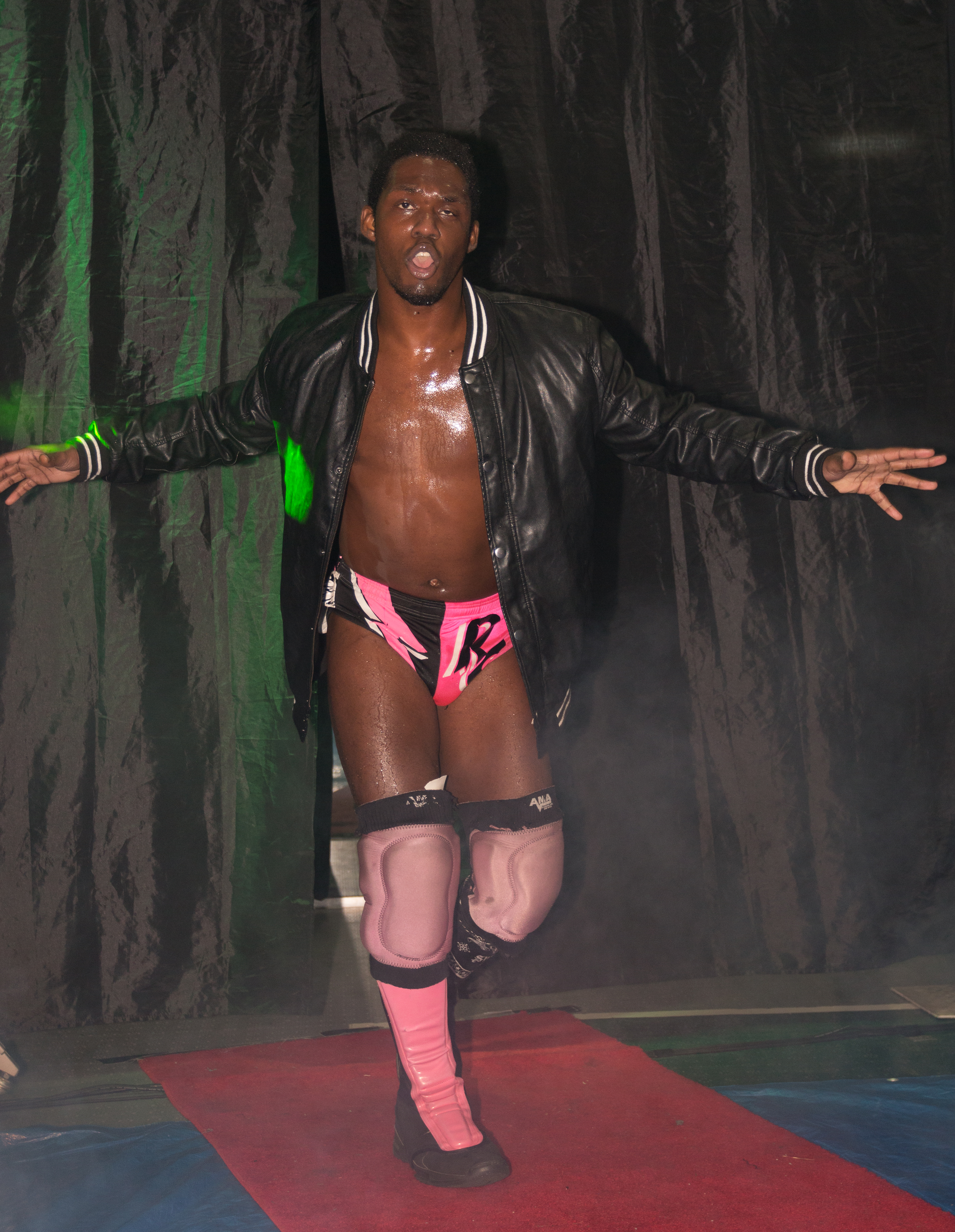 Rich Swann making his entrance at a SMASH Wrestling show in Mississauga, ON